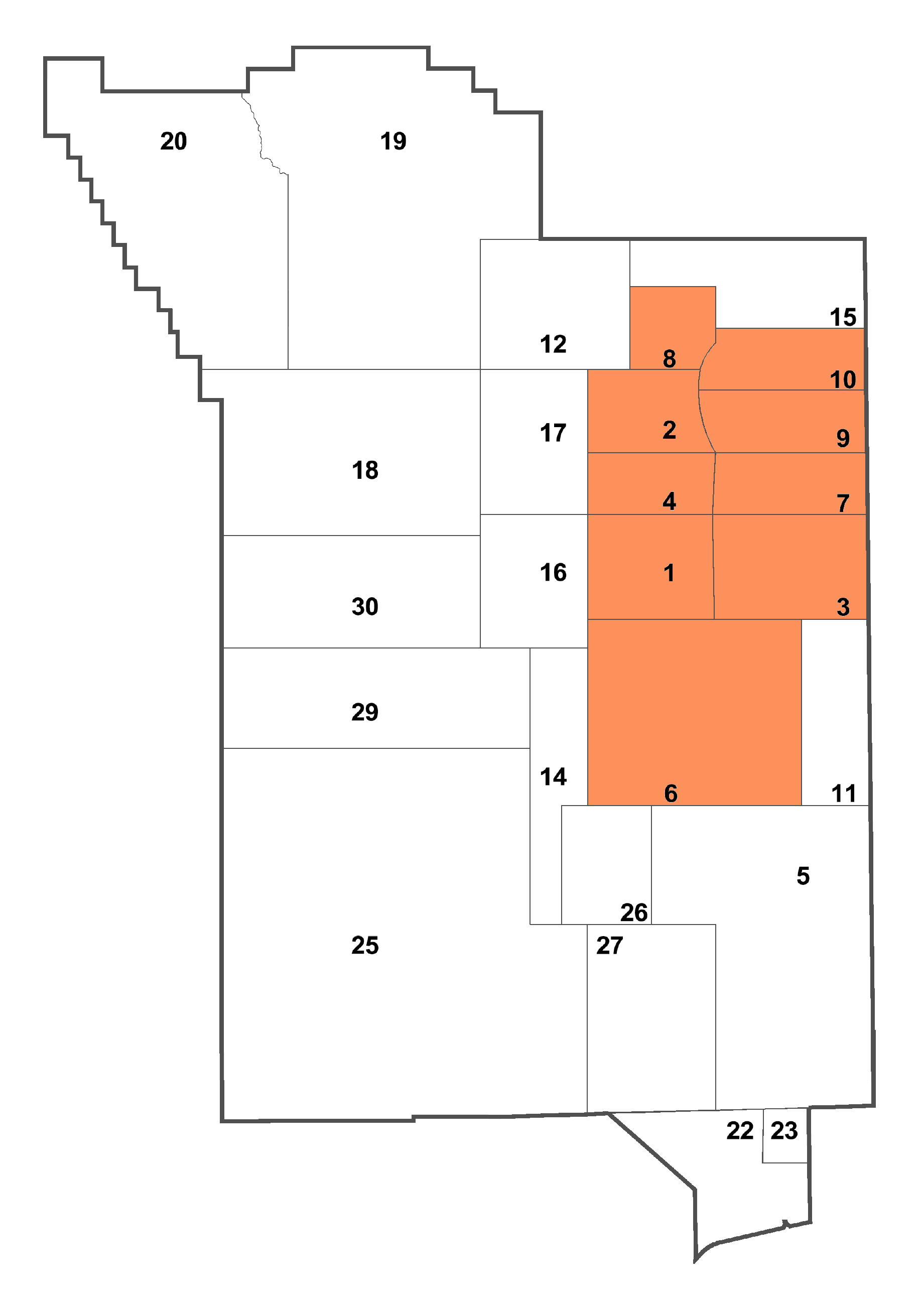 This is a derivative work based on a map taken from a PDF published by Nevada Risk Assessment/Management Program, Nevada Test Site, a part of the US Department of Energy.